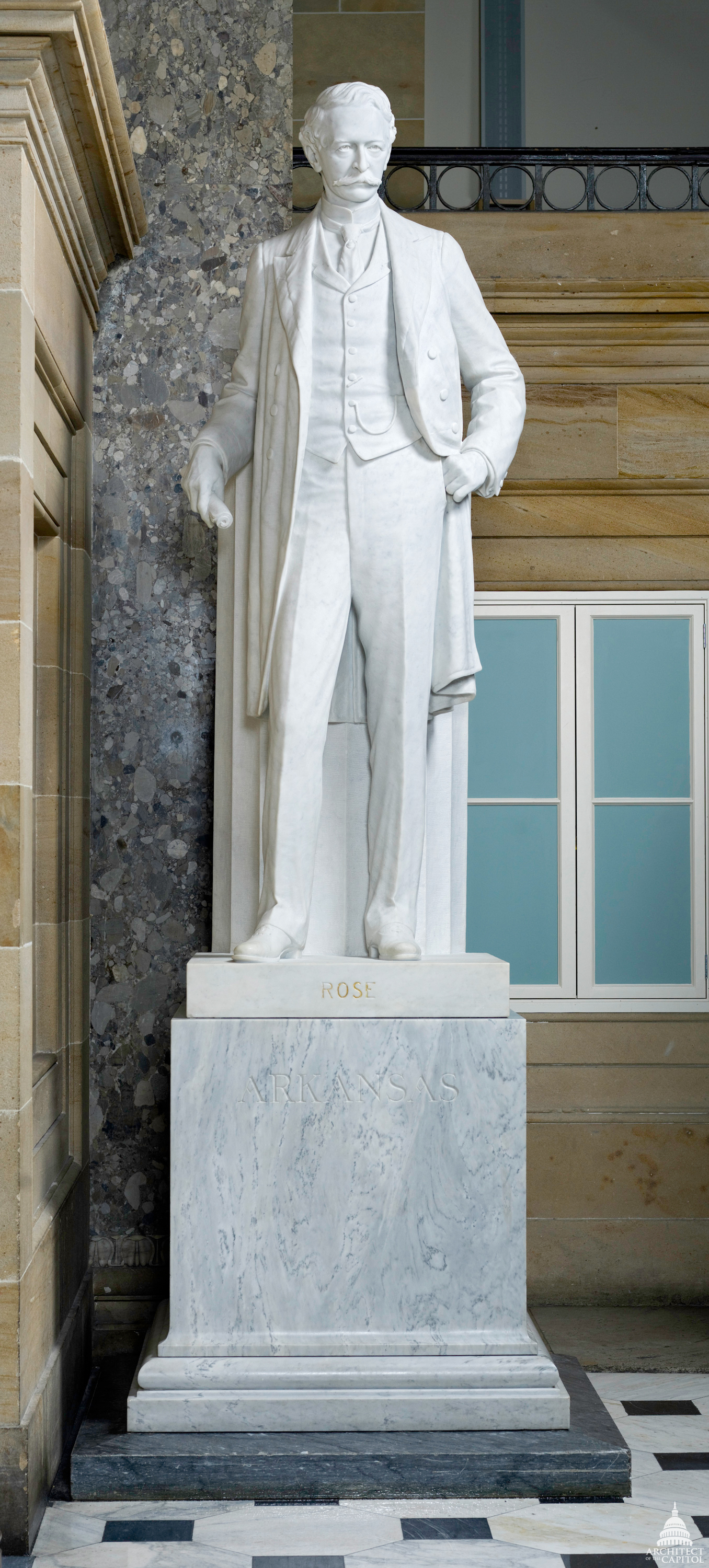 Uriah Milton Rose (1834-1913) Arkansas Marble by Frederic W. Ruckstull Given in 1917 National Statuary Hall U.S. Capitol This official Architect of the Capitol photograph is being made available for educational, scholarly, news or personal purposes (not advertising or any other commercial use). When any of these images is used the photographic credit line should read “Architect of the Capitol.” These images may not be used in any way that would imply endorsement by the Architect of the Capitol or the United States Congress of a product, service or point of view. For more information visit